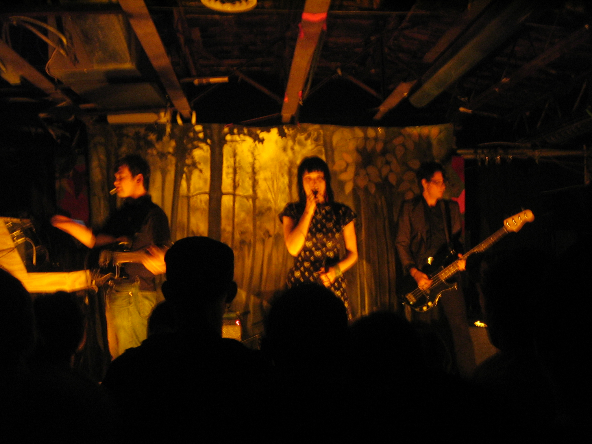 Photograph of the band ADULT. at a gig on October 30, 2005, taken by Flickr User FUckYouNinja.